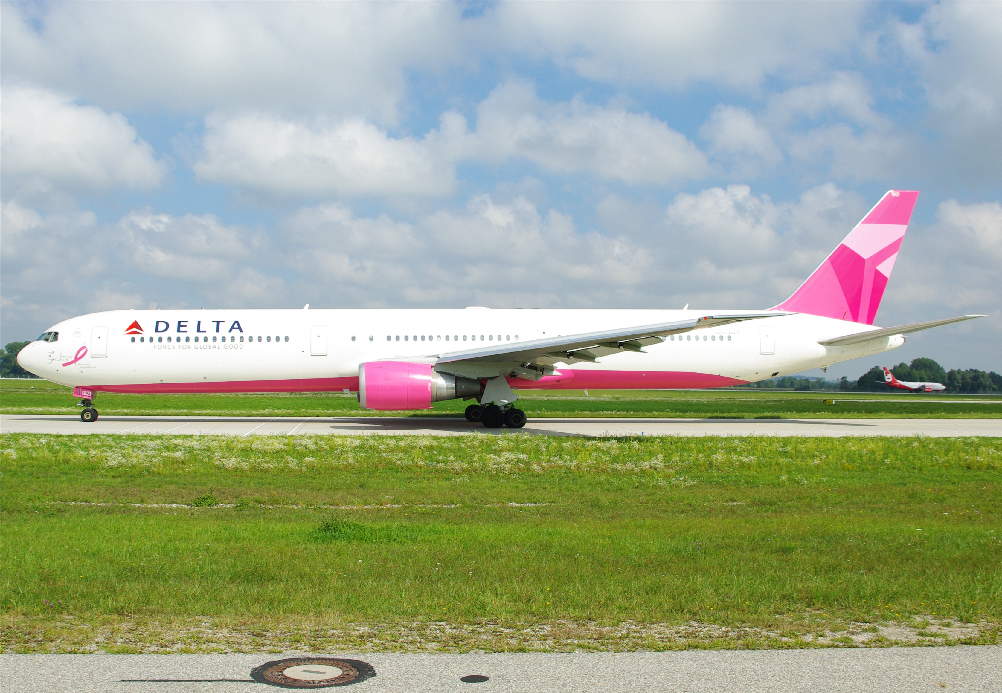 N845MH, Delta Air Lines' Pink Breast Cancer Boeing 767-400ER at Munich International Airport.